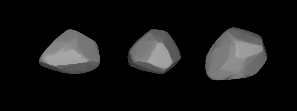 A three-dimensional model of 360 Carlova that was computed using light curve inversion techniques.